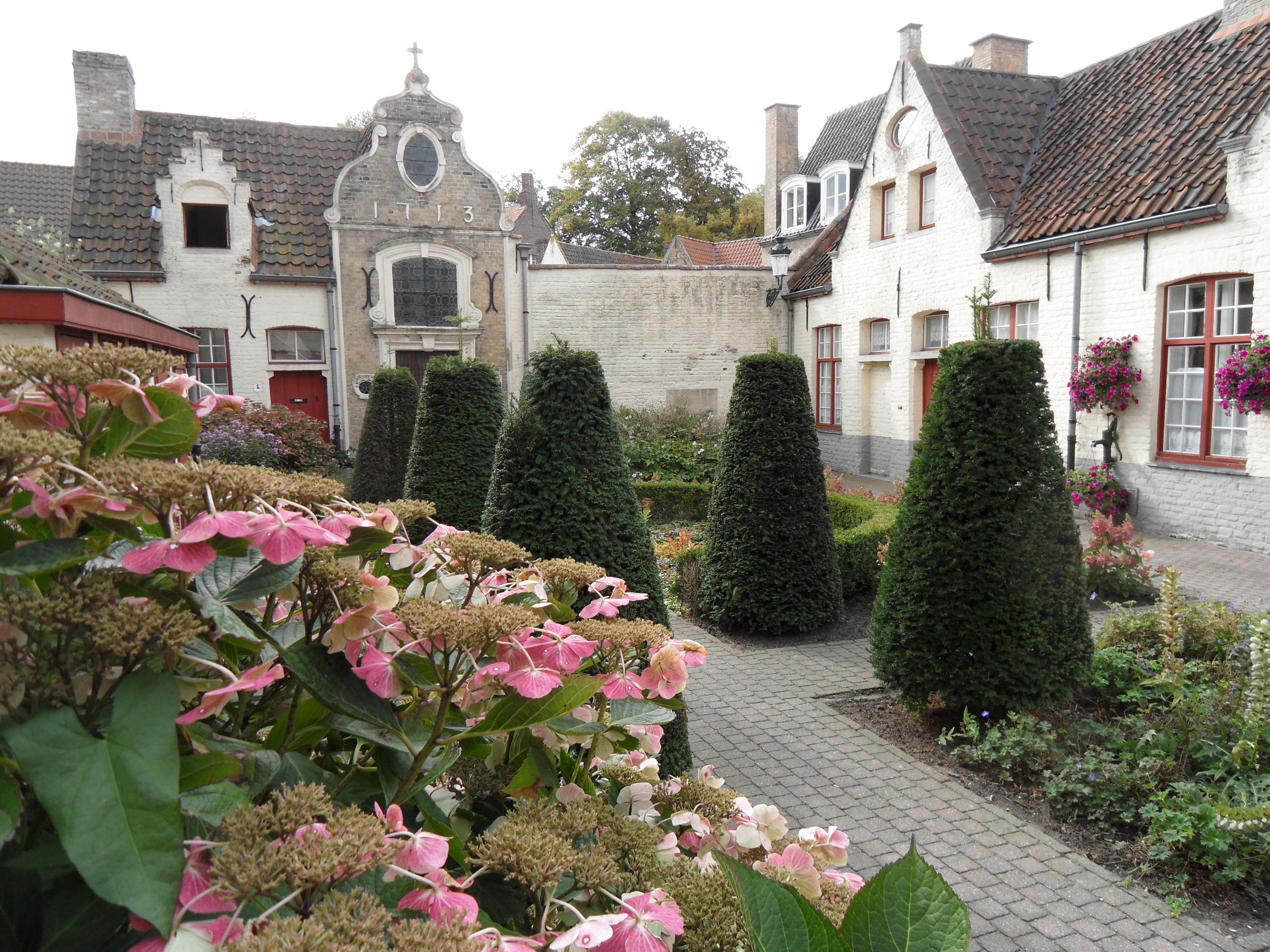 Godshuizen Noordstraat in Bruges